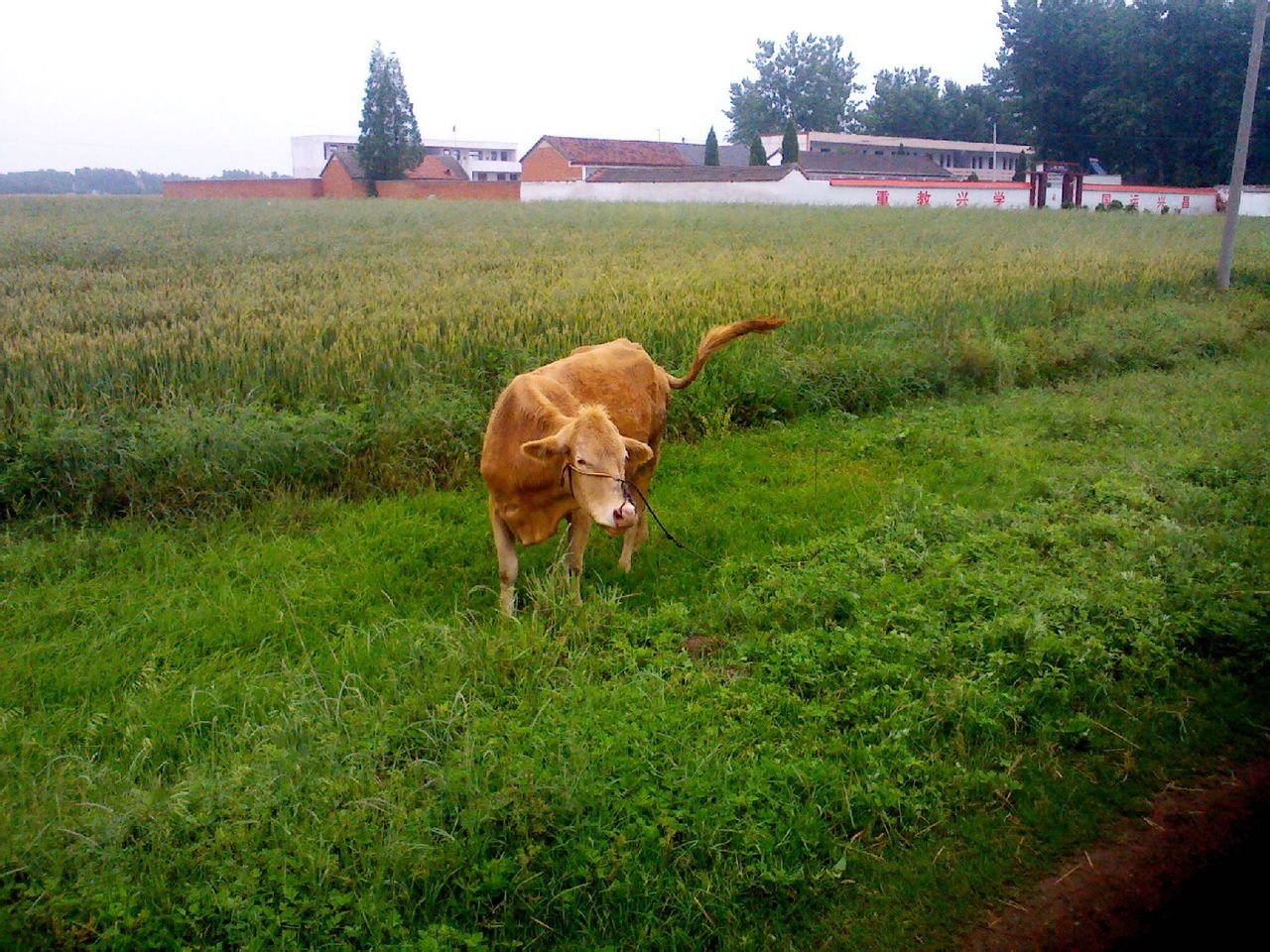 Tanghe a cow infront of a country school